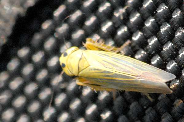 Sonronius dahlbomi from Commanster, Belgian High Ardennes .